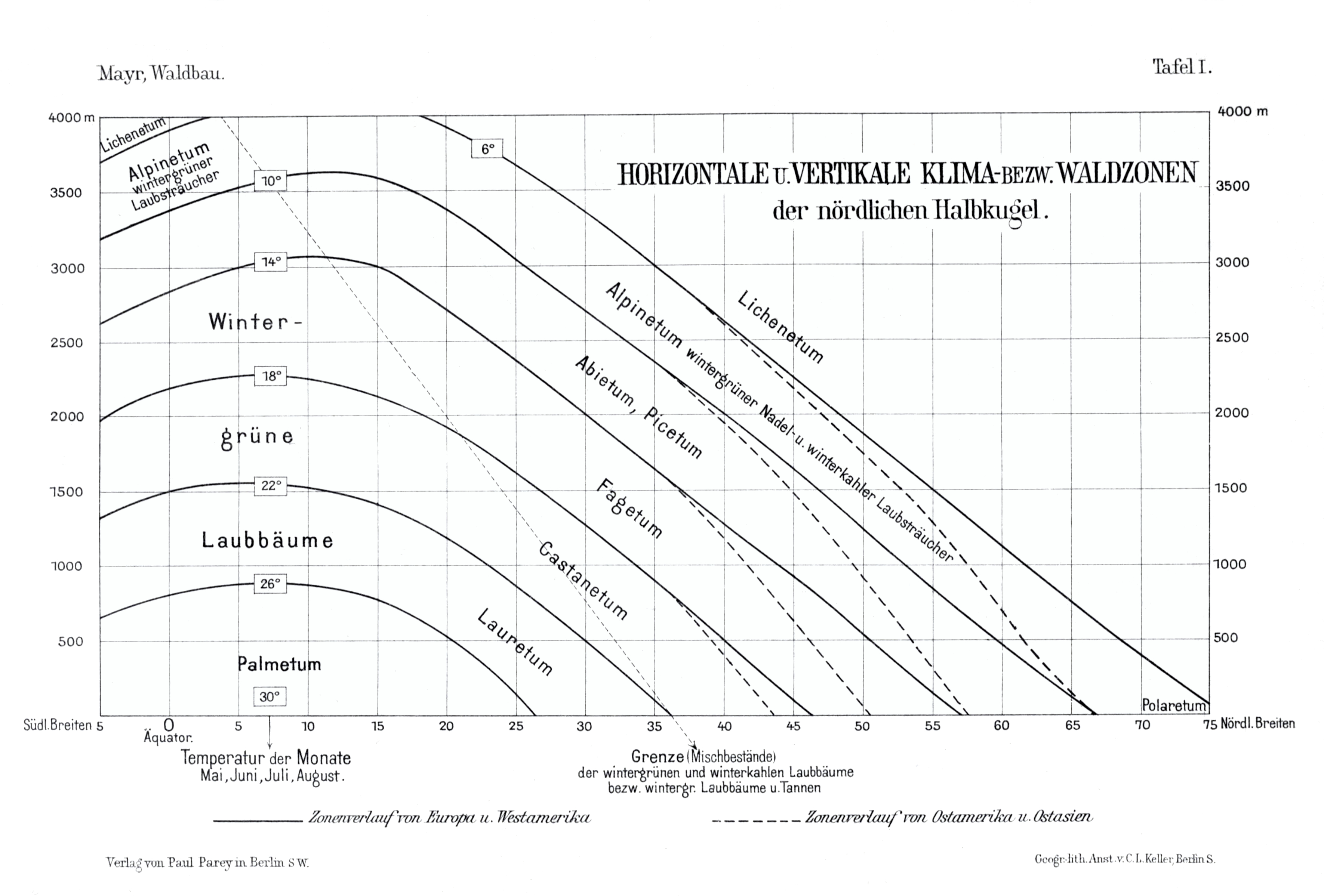 Classification of H. Mayr, tabella I in H. Mayr, "Waldbau auf naturgesetzlicher Grundlage. Ein Lehr- und Handbuch" (1909), Berlin P. Parey, p. 568